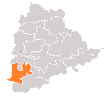 Map of the Indian Loksabha constituency of Mahabubnagar, Telangana